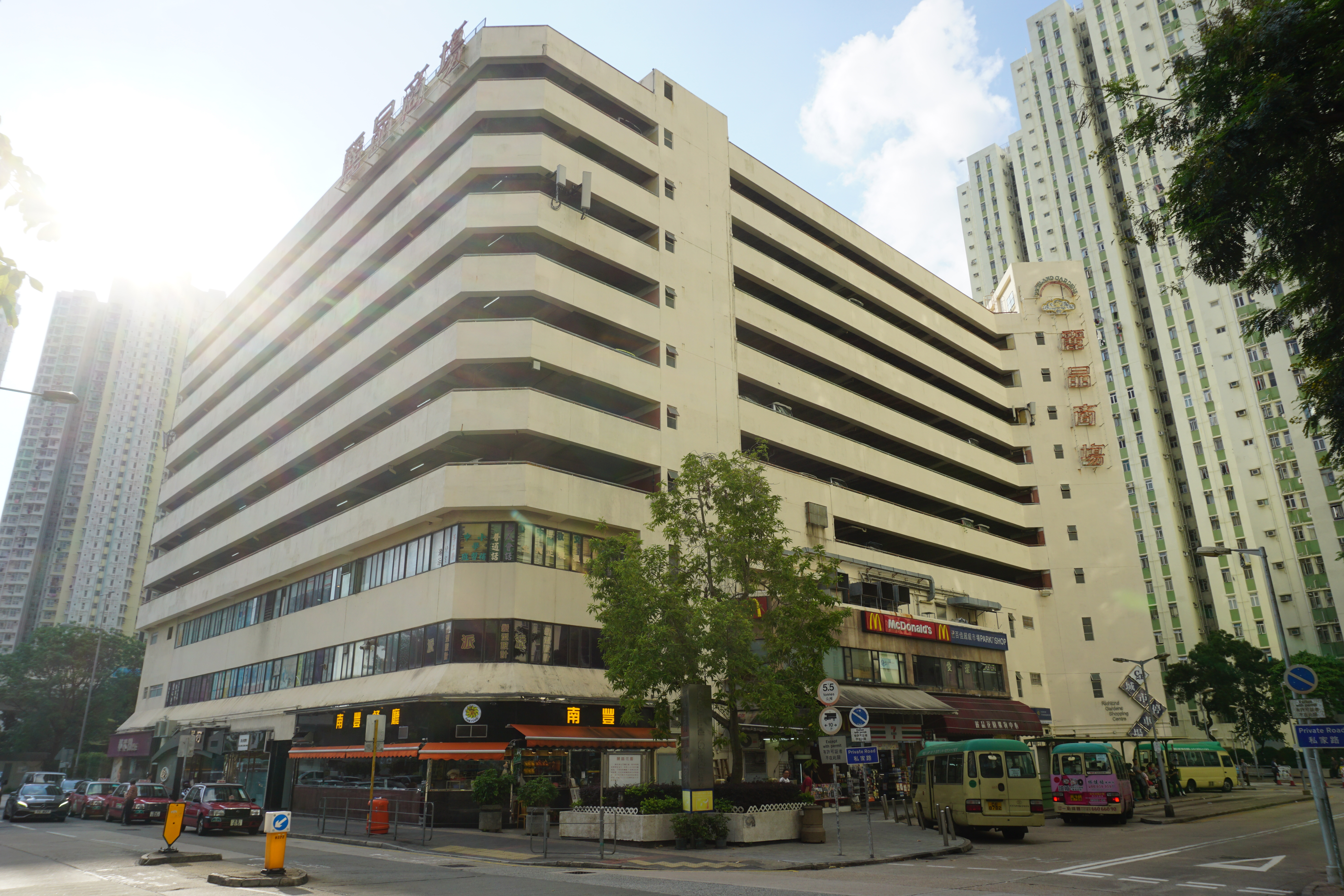 Richland Gardens Shopping Centre in Kowloon Bay, Hong Kong.